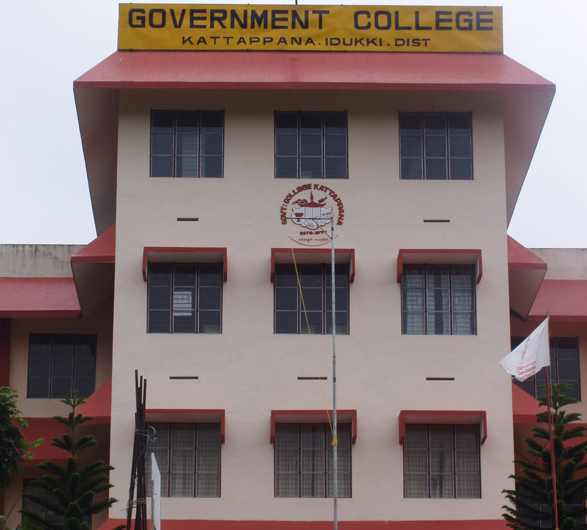 Main block